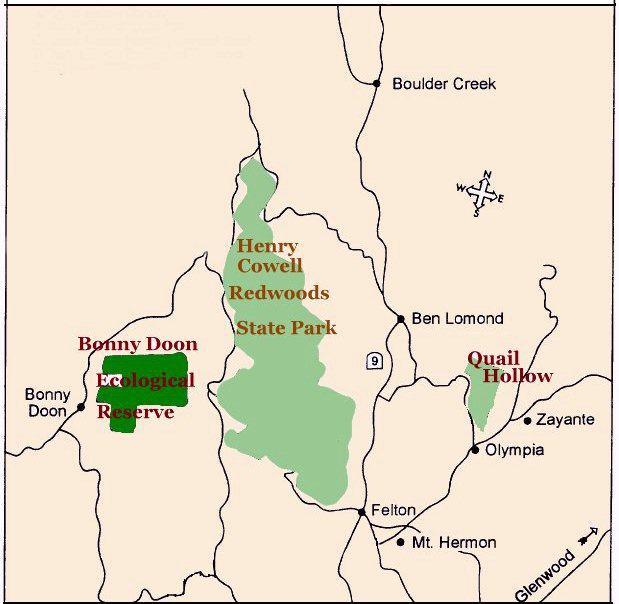 A simple area map showing the reserve's location.